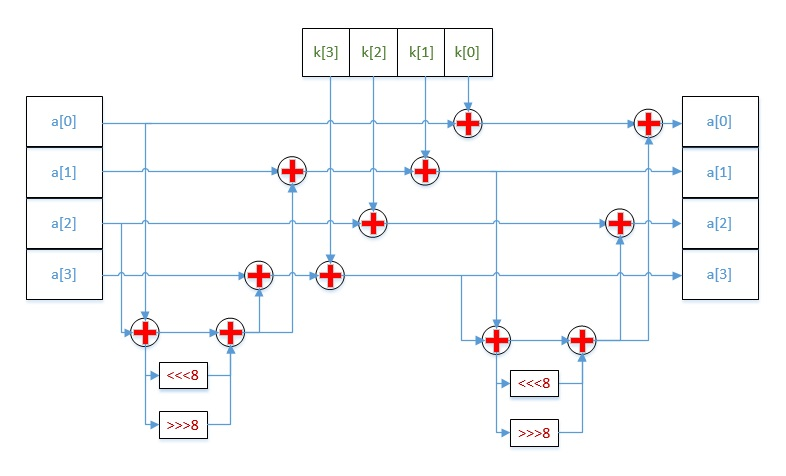 Theta function of NOEKEON cipher